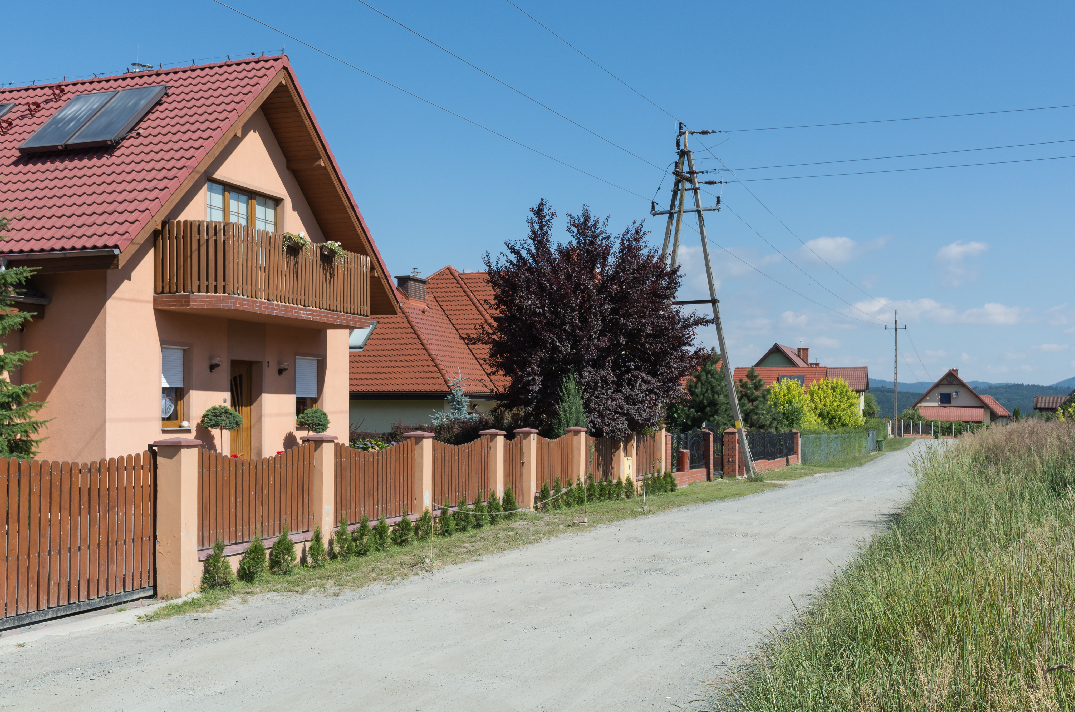 Widokowa Street in Kłodzko